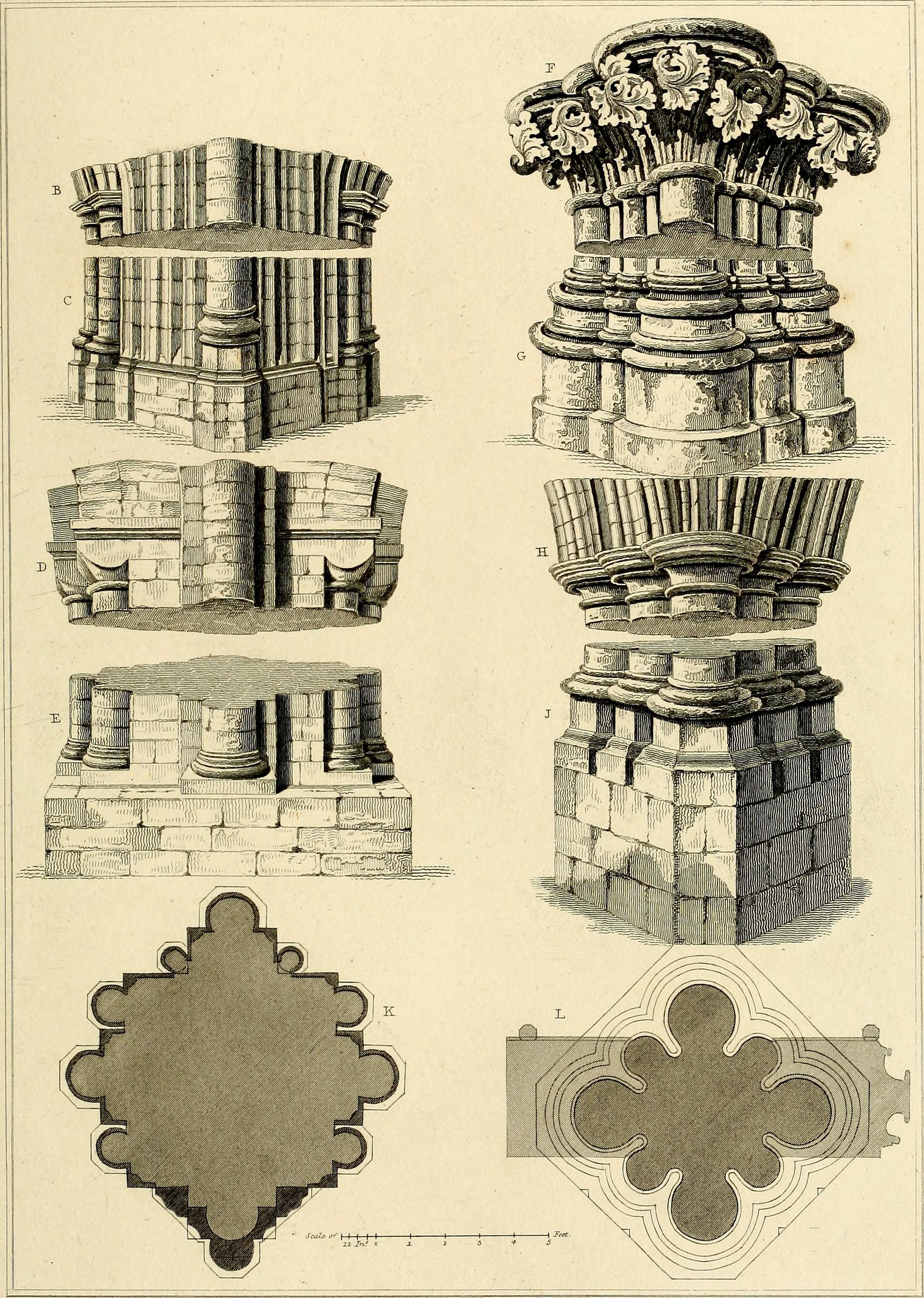 Title: Cathedral antiquities Year: 1814 (1810s) Authors: Britton, John, 1771-1857 Subjects: Cathedrals Church architecture Publisher: London : Longman, Hurst, Reese, Orme, Brown, and Green Caption: Winchester Cathedral Church. Capitals & Bases Text Appearing Before Image: windows and arches onthe north side: a. elevation of the pier of clustered columns and hollowmouldings: b. section of the opposite pier: c. section of the wall, betweenthe windows, of the arch of the aile, and of the concealed flying buttressfrom the wall of the nave to that of the aile : d. section of the wall, beneaththe window of the north aile: e. western door-way to the north aile:f. window of the clerestory, to the nave, over which is a section of itsmouldings and of the parapet: g. section of the window of the north aile,beyond which is shown the profile of the large buttress on the north side,surmounted by a crocketed pinnacle, having a finial: h. a gallery, or floor,raised over the western end of the north aile, now used as the ecclesiasticalcourt, and containing documents belonging to the church, but formerlyemployed as a tribune, according to Dr. Milner, to contain the extra-ordinary minstrels, who performed on grand occasions, when some prelate, CATHEBTRAIL .AFnnDpUITinES. Text Appearing After Image: ty RaiUcn, from, a Drawing bv CJF.JbnZen fcrSnttim^Sisttry hx. oiWinchester Cathedral. WKKTOniEiTnEm CDATIHTEMSAIL (DIHIWIEiSM, CiMTAlS fc BASKS.London.Puituhcd, OctljSn, ty laiu/man kCItttrnosttr Bum. printed iv ilJT k JiajTtft£- CATHEDRA! ANTKJIPITIES. FI..W.